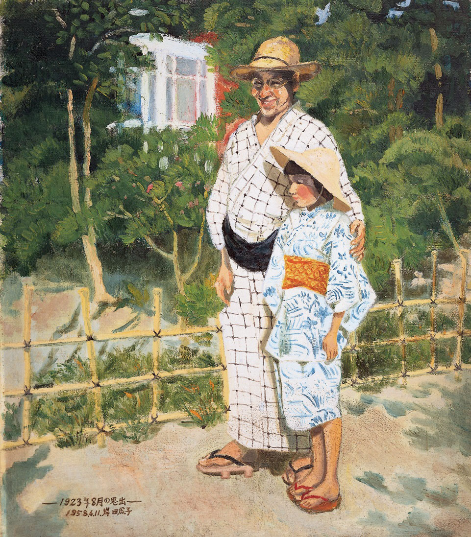 Memories of August 1923 (showing Kishida Reiko with her father Kishida Ryusei), by Kishida Reiko (private collection)